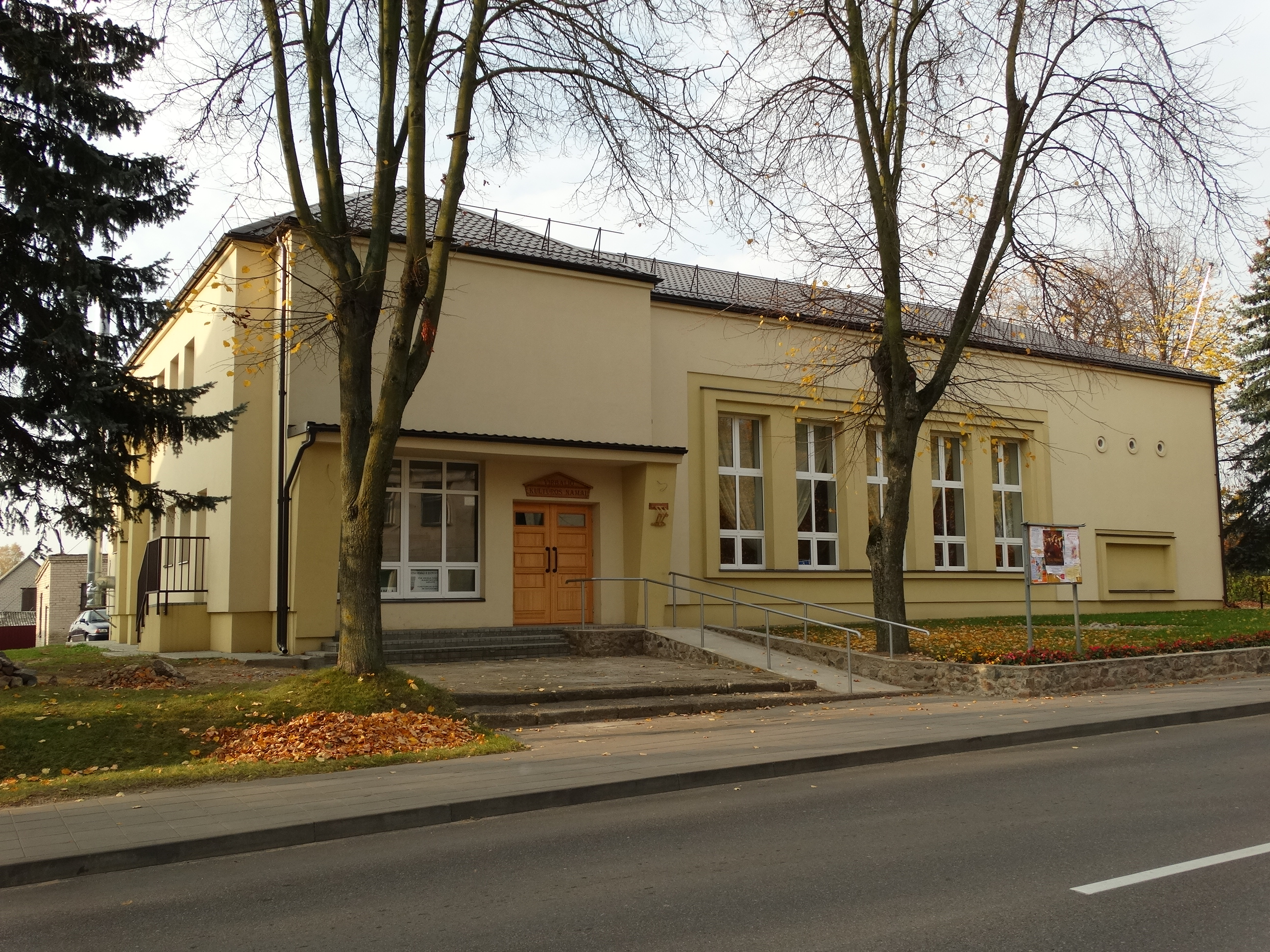 Centre of culture, Virbalis, Vilkaviškis District, Lithuania